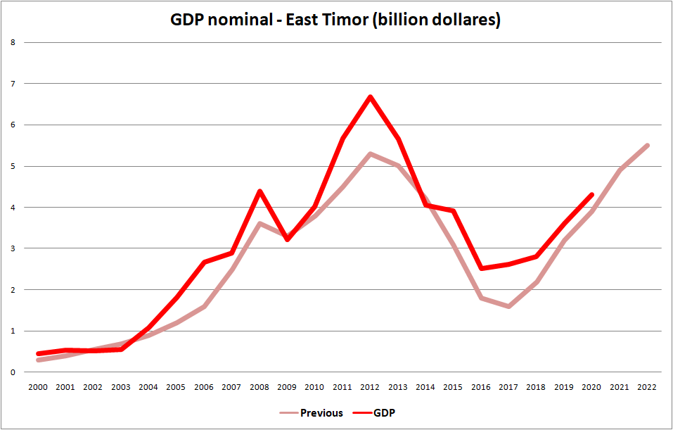 Economy of East Timor (nominal GDP)(previous and data)